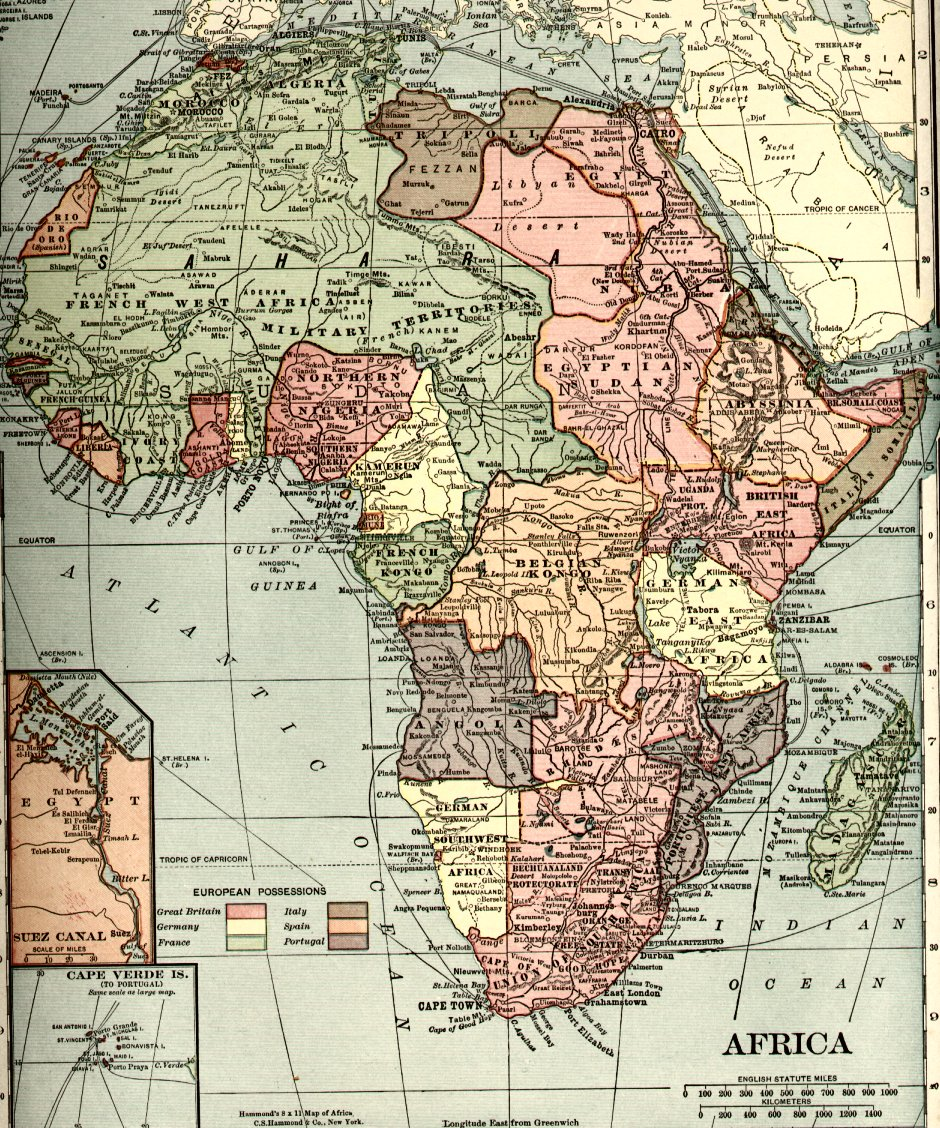 Map of Africa, scanned from Hammond's Atlas of the Modern World, 1917 Africa